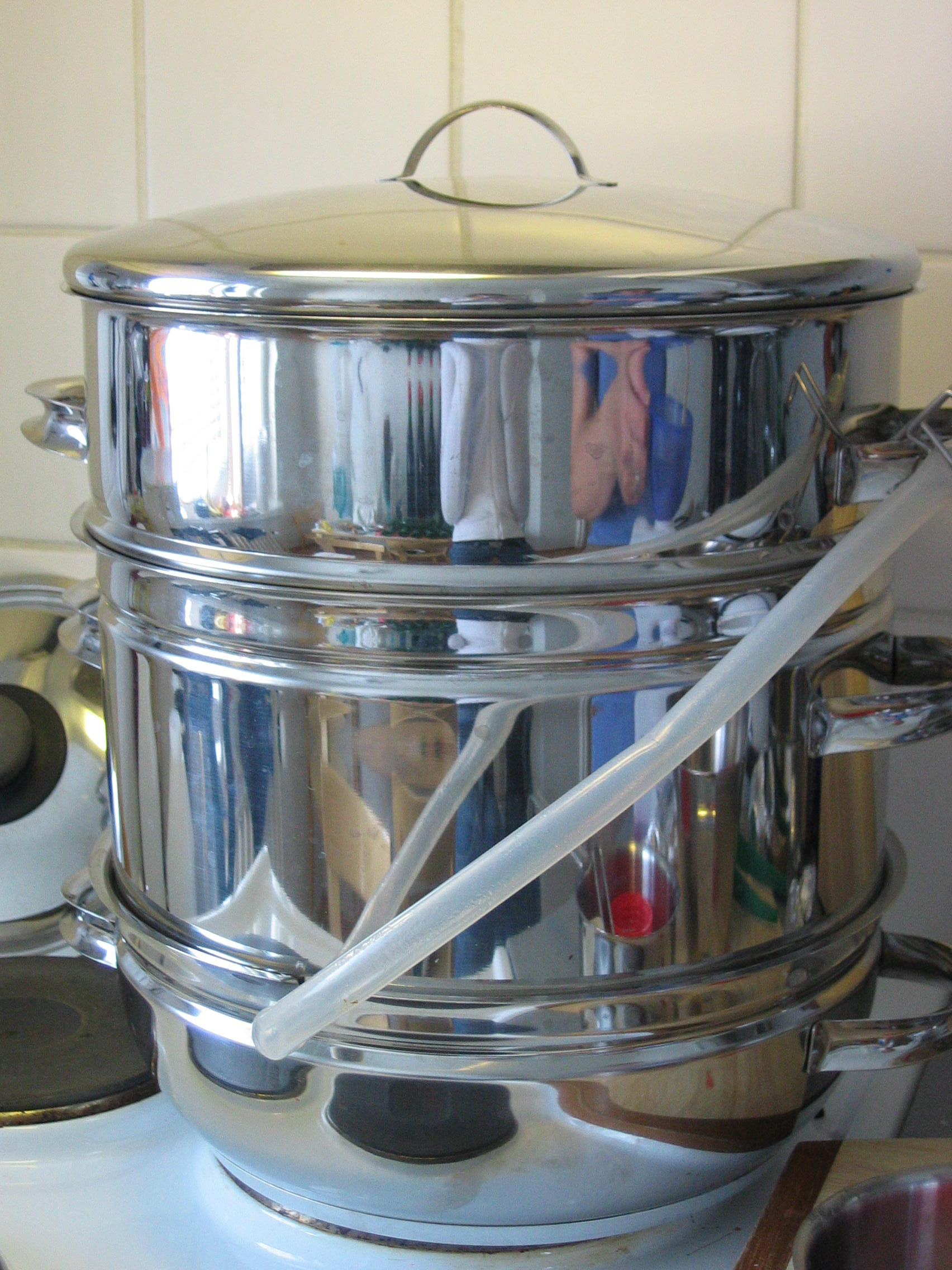 Juice making kettle to prepare self-made juice from garden berries.